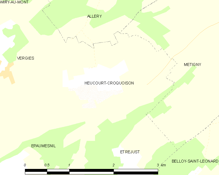 Map of French municipality Heucourt-Croquoison